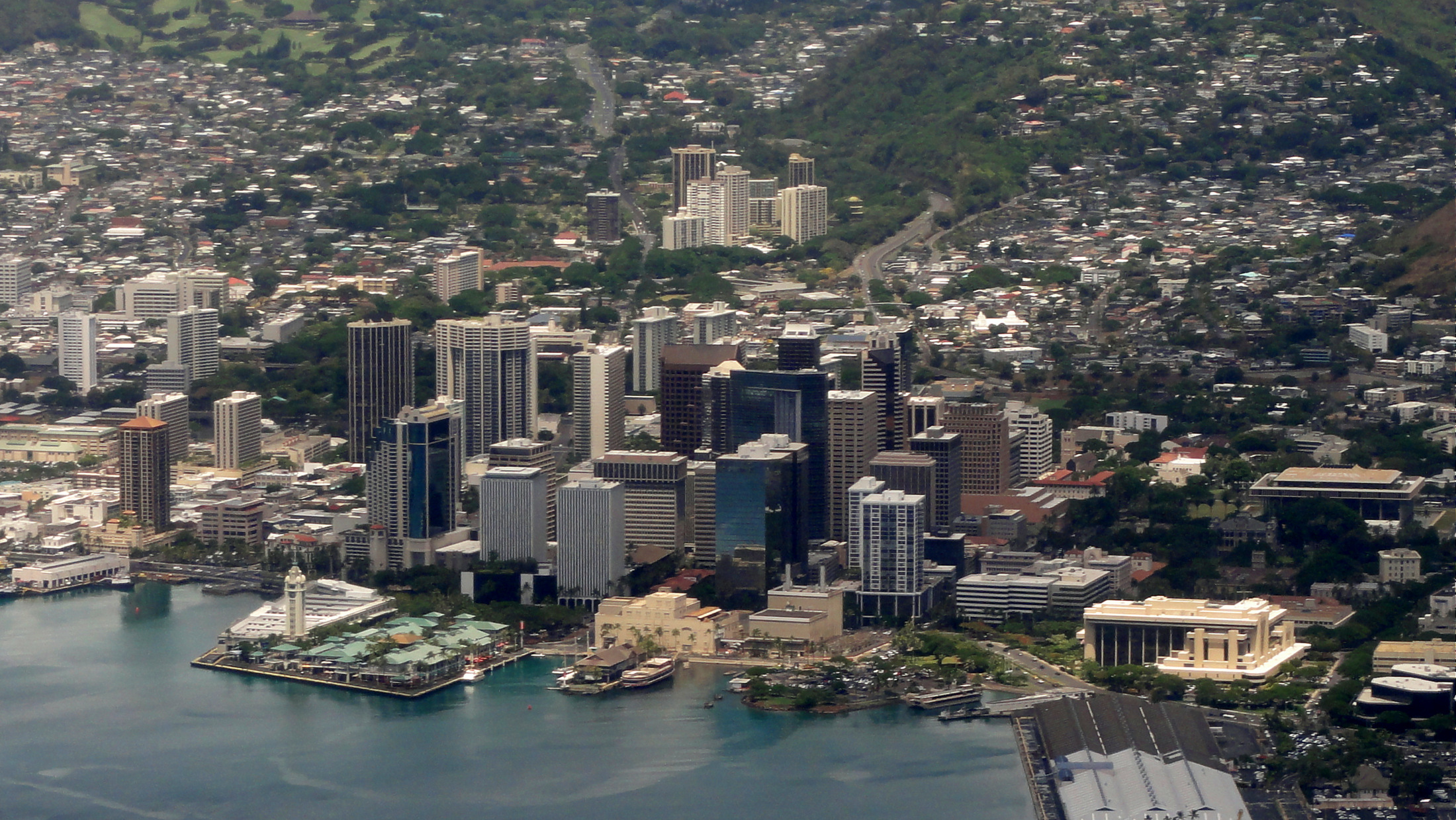 Hawaii: Downtown Honolulu Aerial View